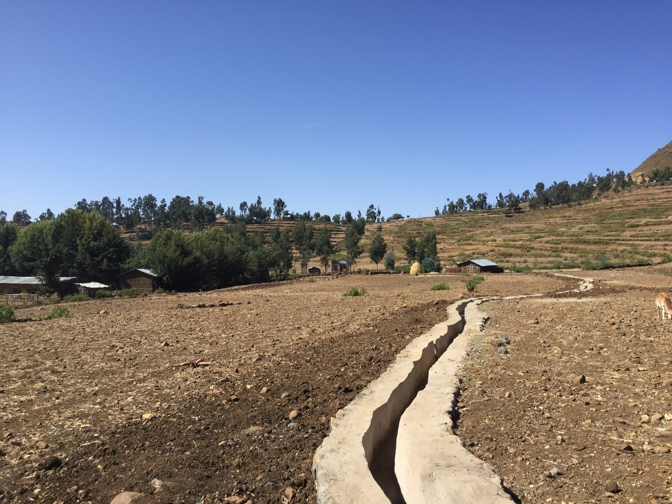 Mashih irrigation to school